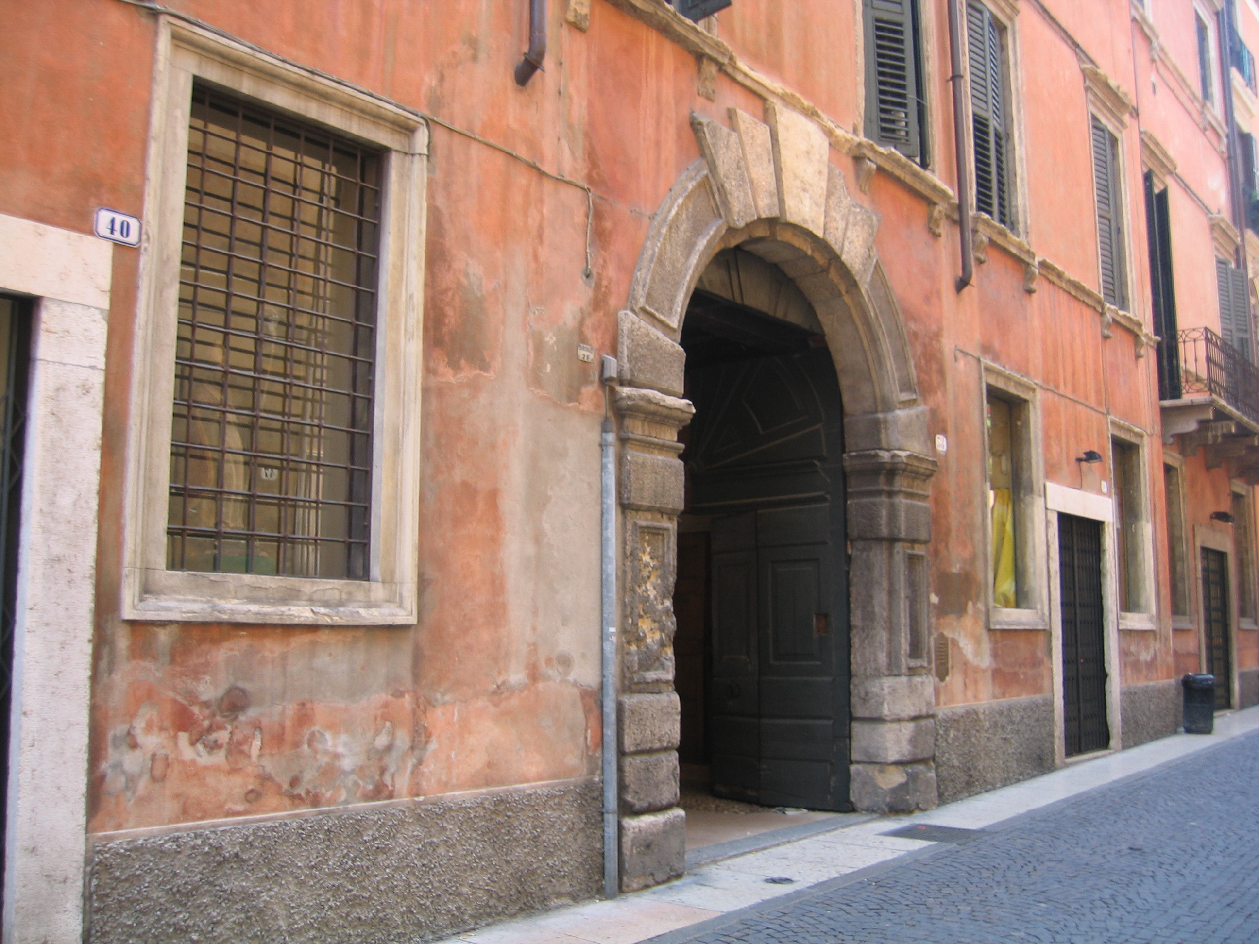 Bevilacqua Palace in Verona